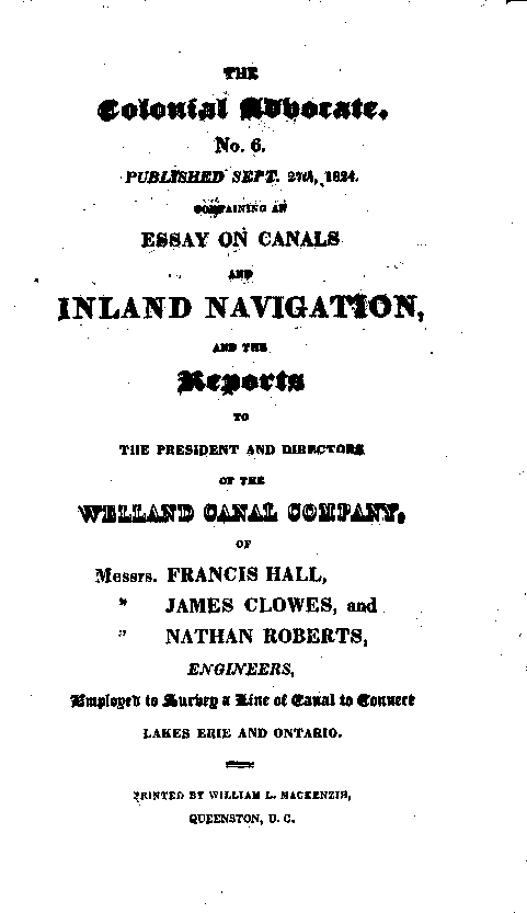 The Colonial advocate, no. 6 : published Sept. 27th, 1824, containing an essay on canals and inland navigation, and the reports to the president and directors of the Welland Canal Company of Messrs. Francis Hall, James, Clowes, and Nathan. Copied from the PDF at the Kobo store, seems to have downloaded it from . Converted to greyscale by the uploader, cropped to remove some black marks around the edges and erased some smudges, all using GIMP.